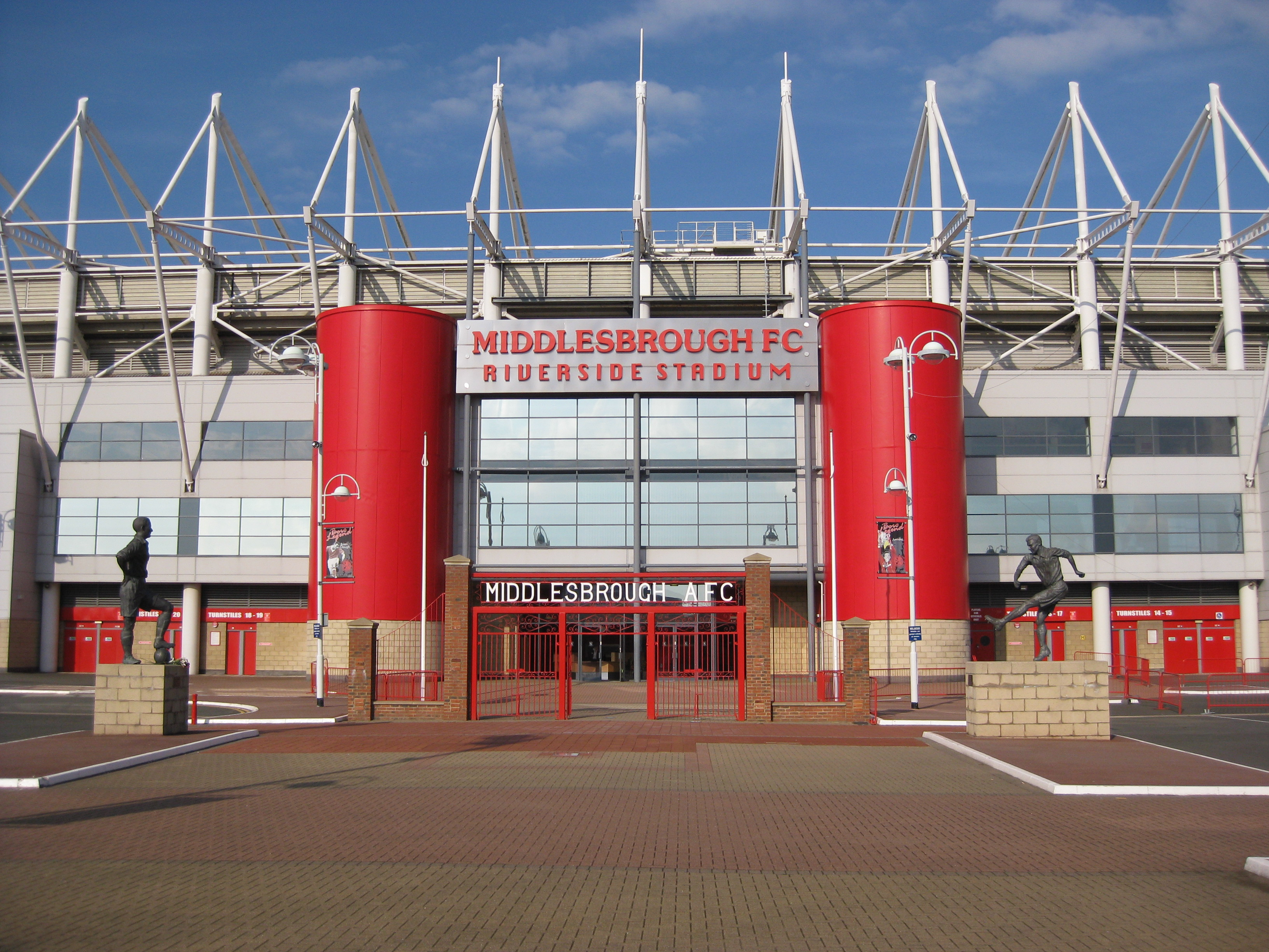 Entrance to the Riverside Stadium of Middlesbrough F.C.. With the gates of the former Ayresome Park, and statues of George Hardwick and Wilf Mannion